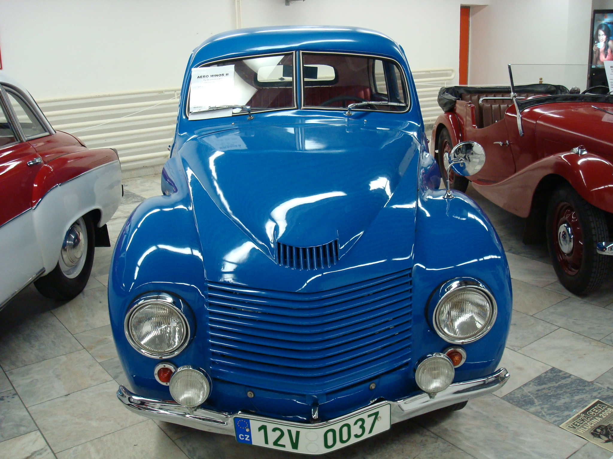 Motorshow 2008